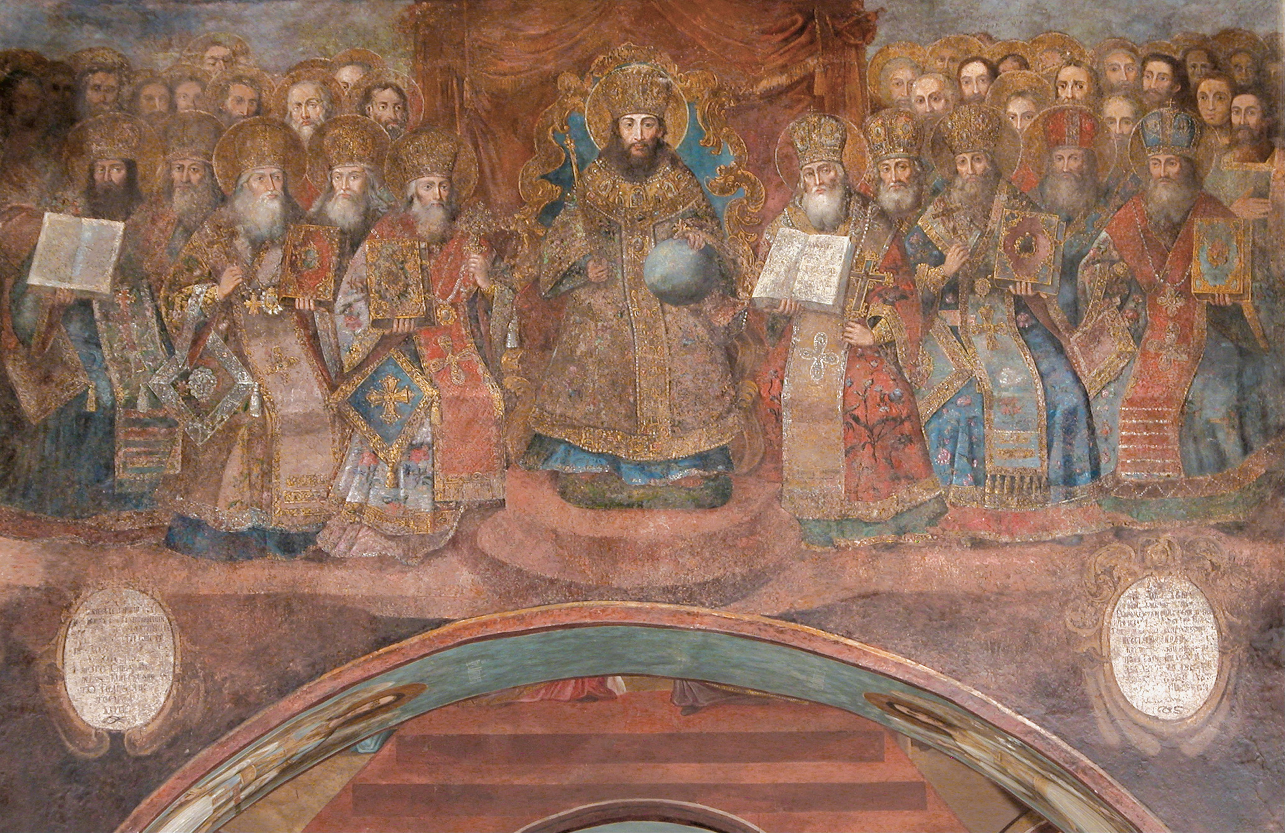 There were portrayals of seven Ecumenical Councils in the central part of St. Sophia Cathedral. Only the portrayal of the First Ecumenical Council has been preserved. The First Ecumenical Council took place in 325 in Nicaea (present-day Iznik, Turkey). Therefore, it is also called the First Council of Nicaea. The basic doctrines of Christianity were defined and approved at this Council. The Council was convened by the Emperor Constantine the Great.